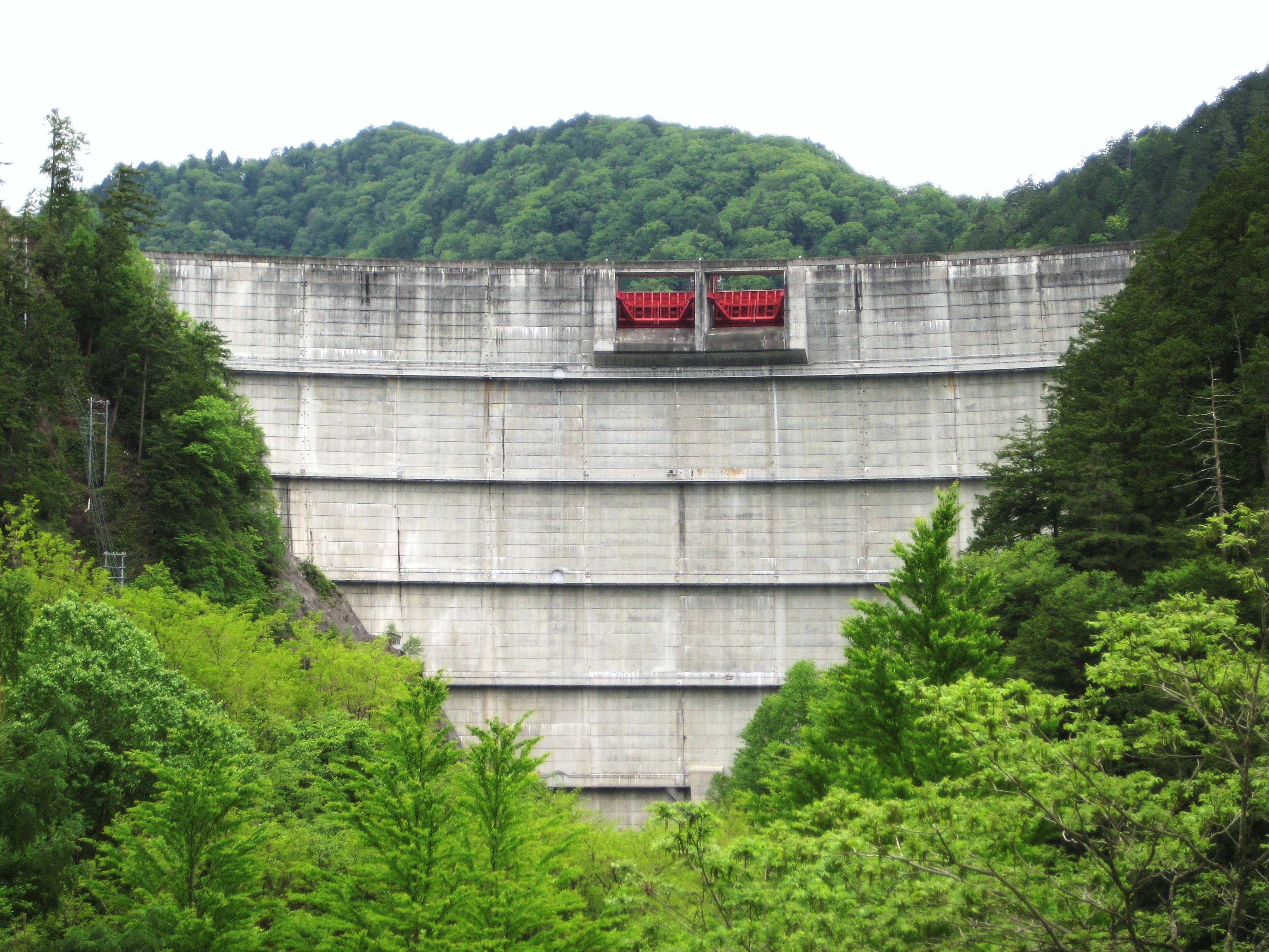 Takane I Dam.